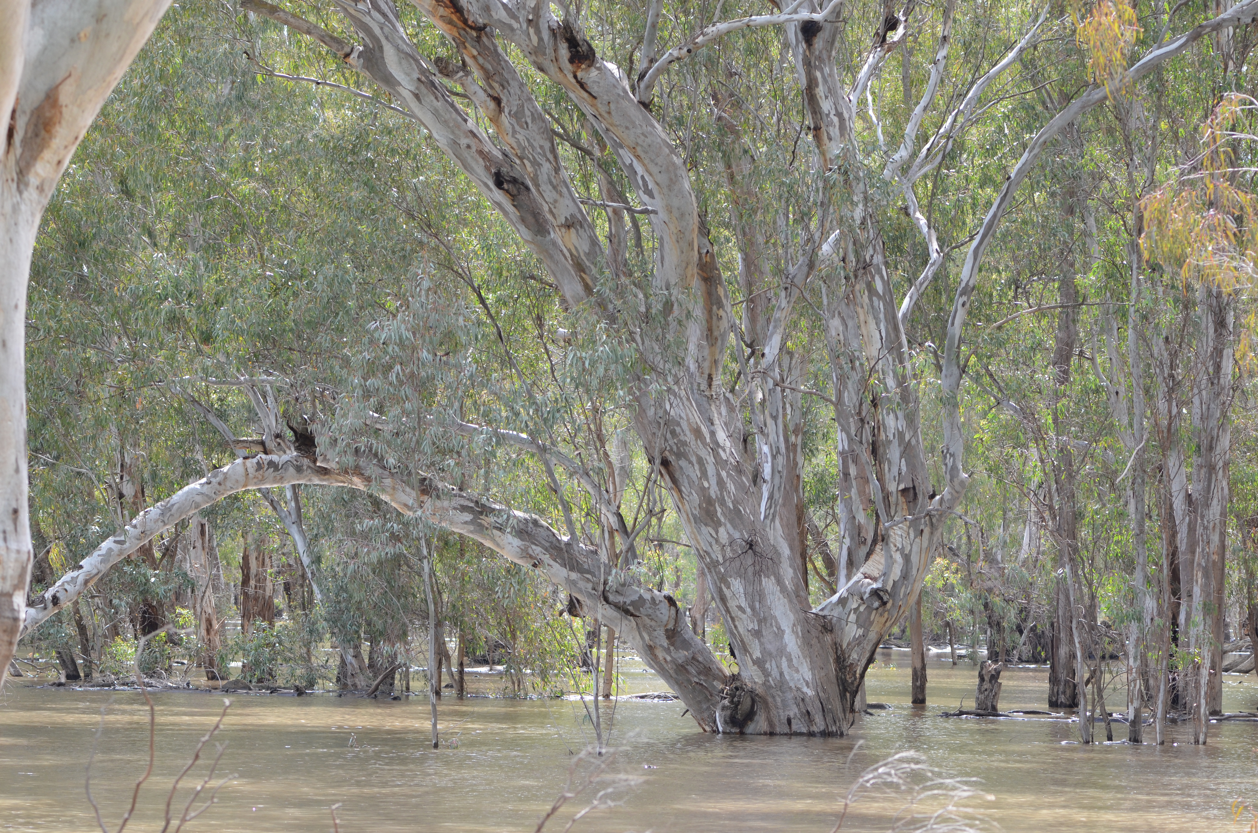 River Red Gums, Eucalyptus camaldulensis. The Murrumbidgee River in flood, between Hay & Griffith, NSW.